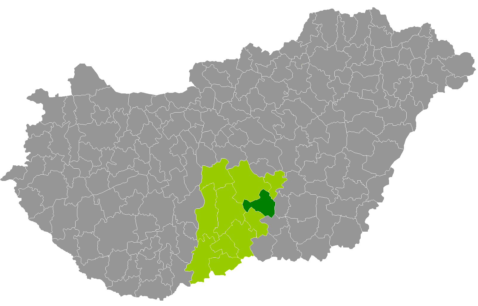 Location of Kiskunfélegyháza District, Bács-Kiskun, Hungary